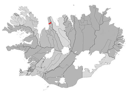 Based on Municipalities of Iceland.png.